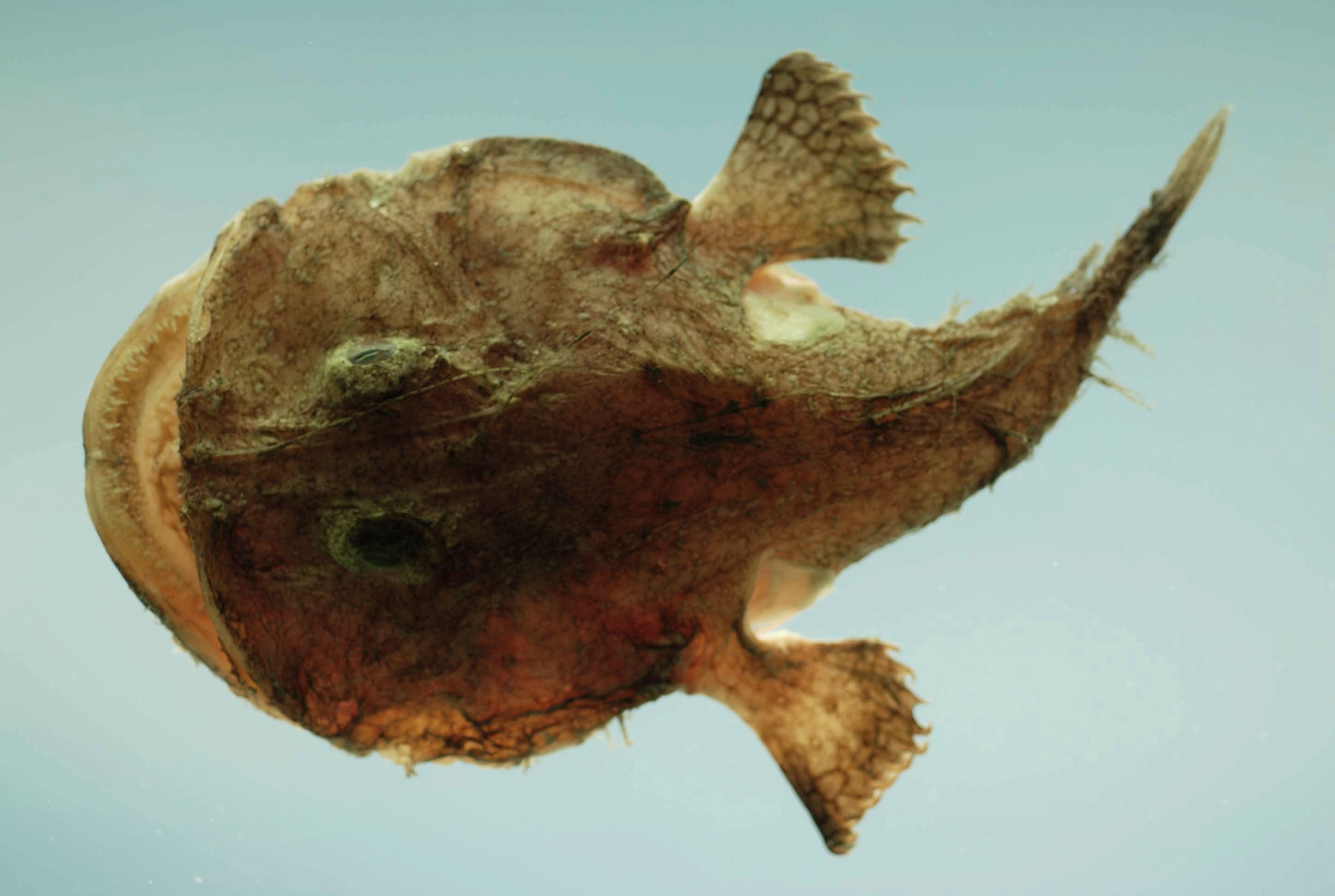 Reticulated goosefish (Lophiodes reticulatus). Gulf of Mexico.